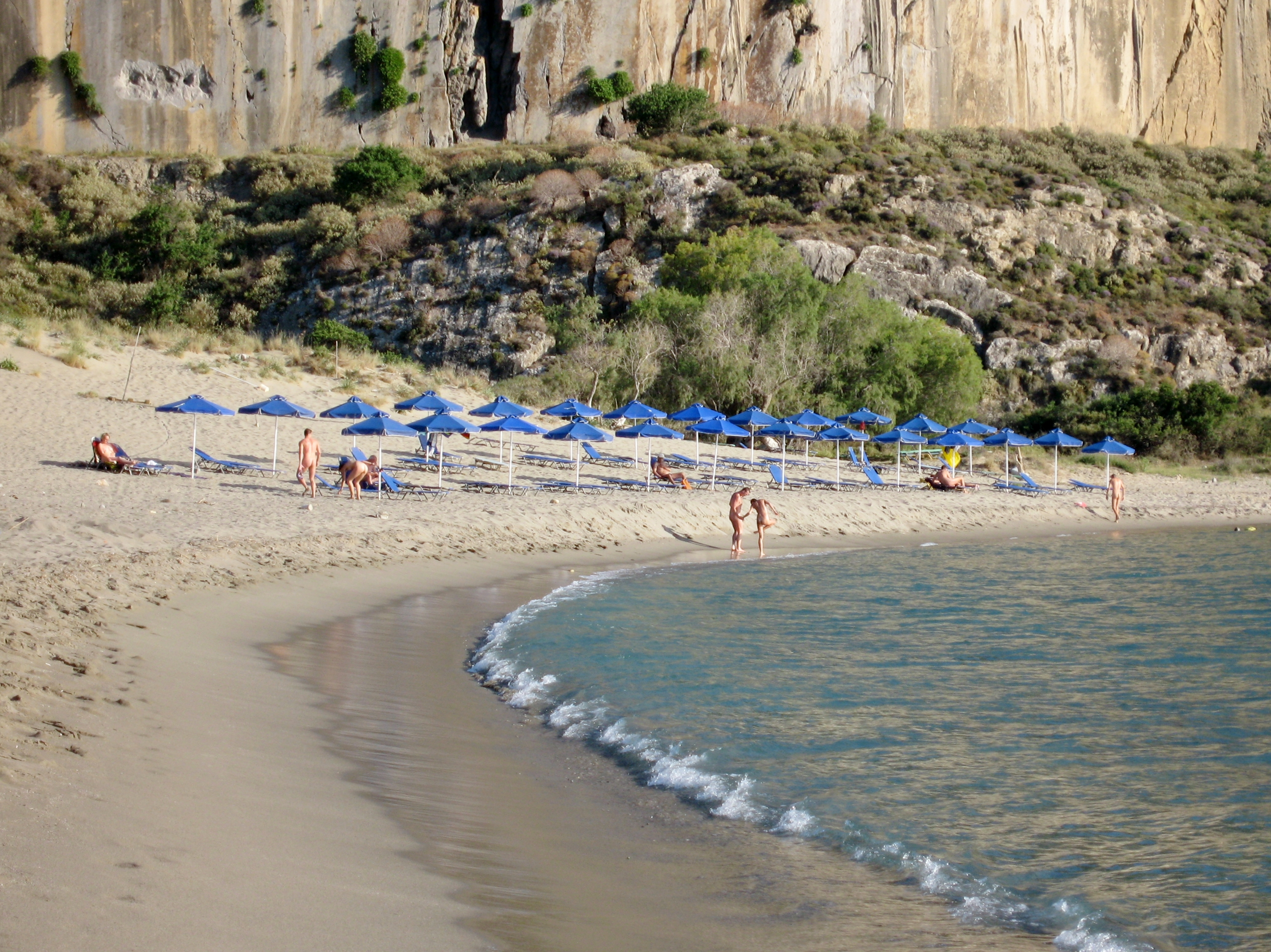 Beach of Plakias, Dimos Finikas, Nomos Rethymno, Crete, Greece